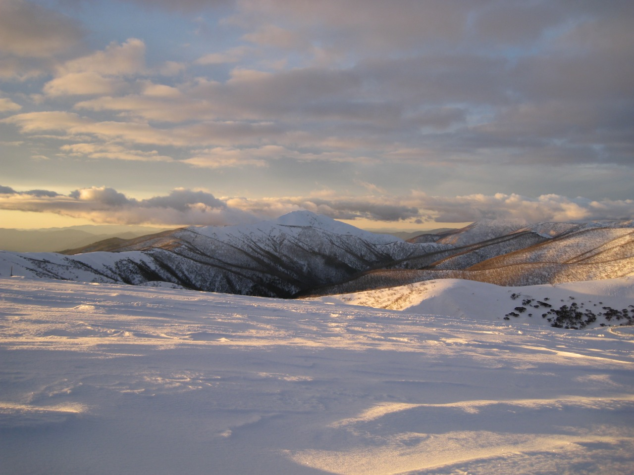 A landscape view from the summit on Mt Hotham in Victoria, Australia.